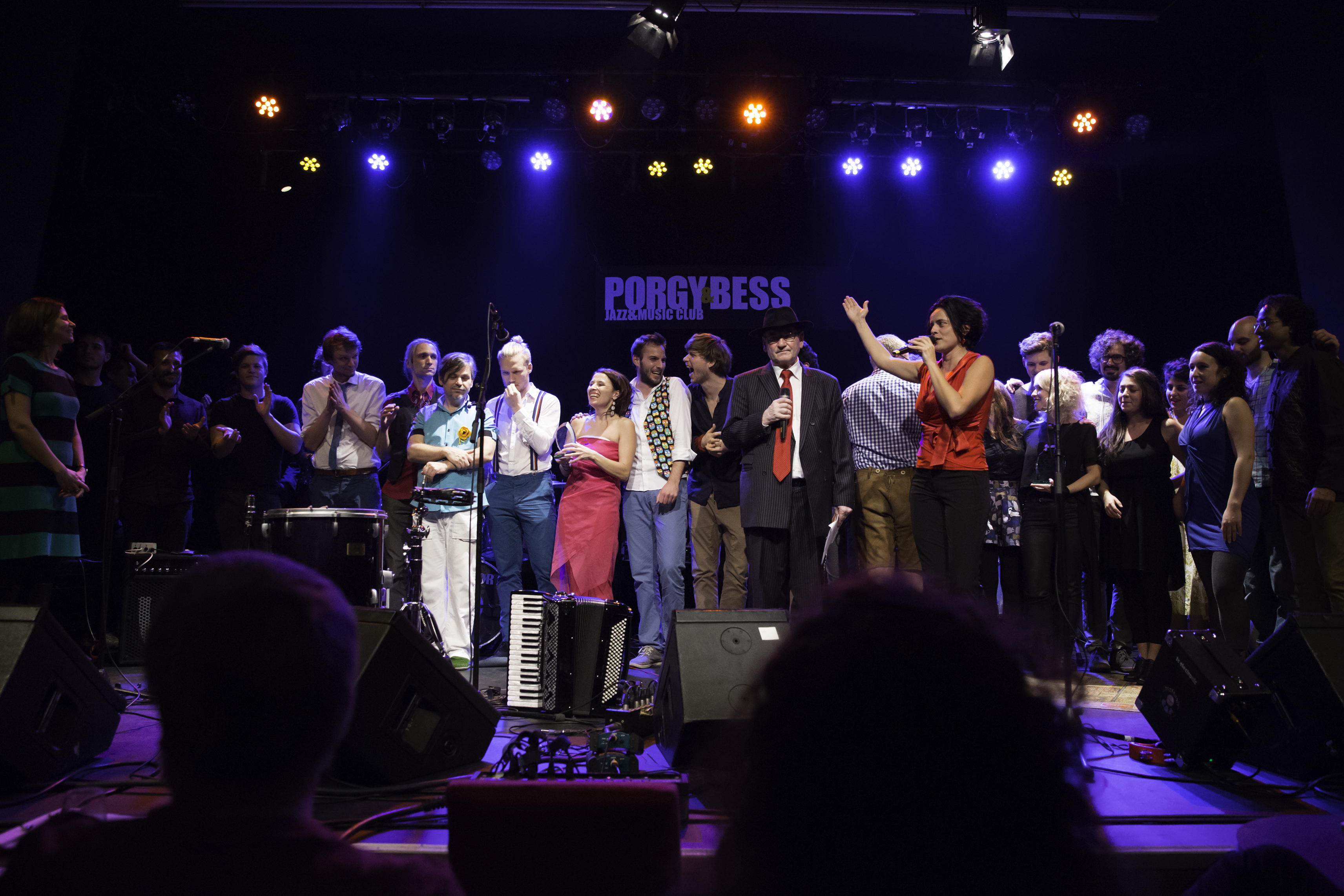 Austrian World Music Awards 2015 at Porgy&Bess in Vienna, Austria: Federspiel (first price), Alma (second price) and Das Großmütterchen Hatz Salon Orkestar (audience award), further finalists Duo-Dinovski-Schuberth and Mahan Mirarab Band with presenters Maria Craffonara and Slavko Ninić.